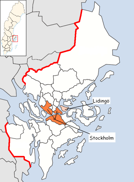 Lidingö Municipality in Stockholm County Designed by me. Mere outlines are a PD source from